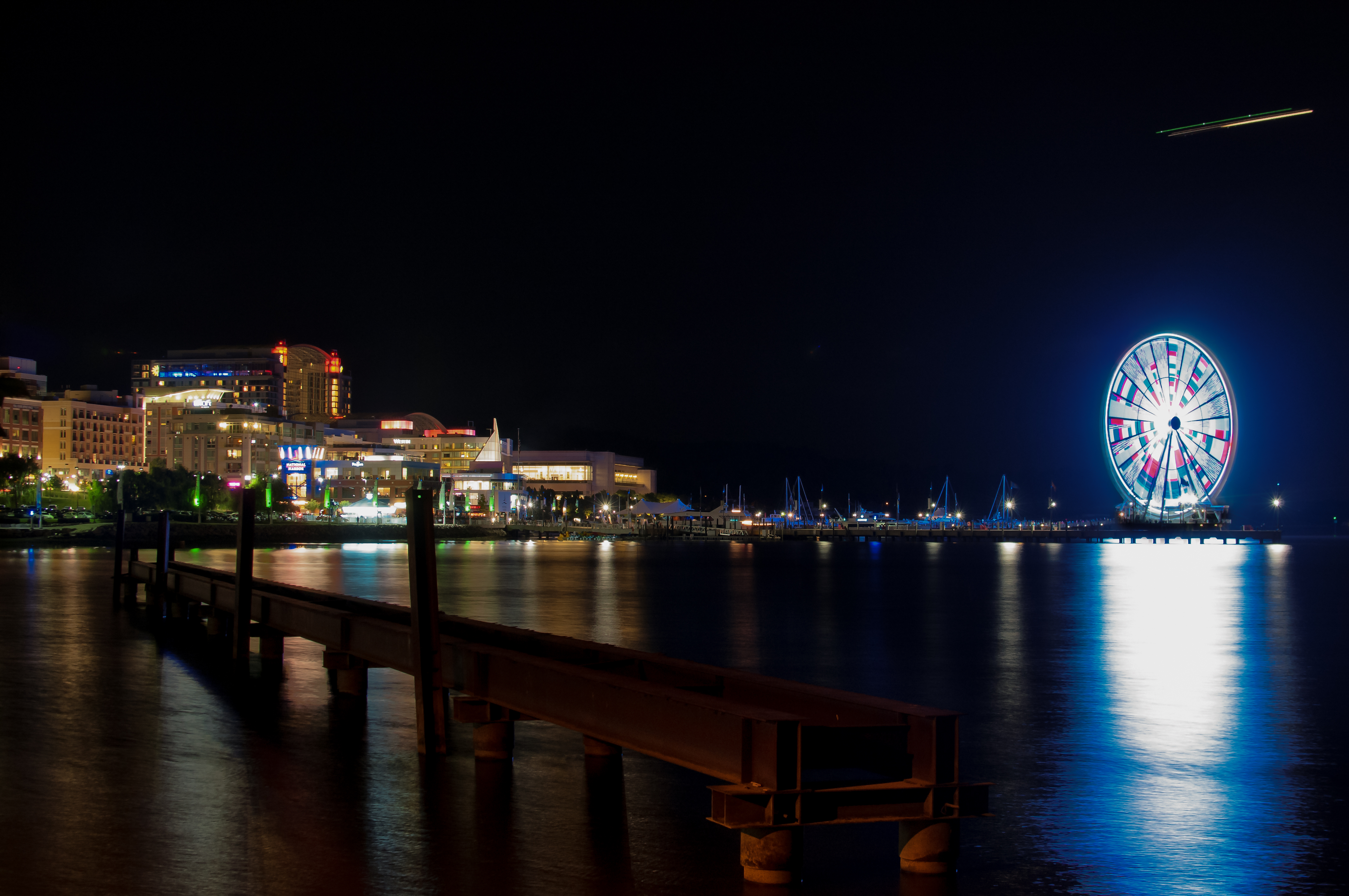 National Harbor